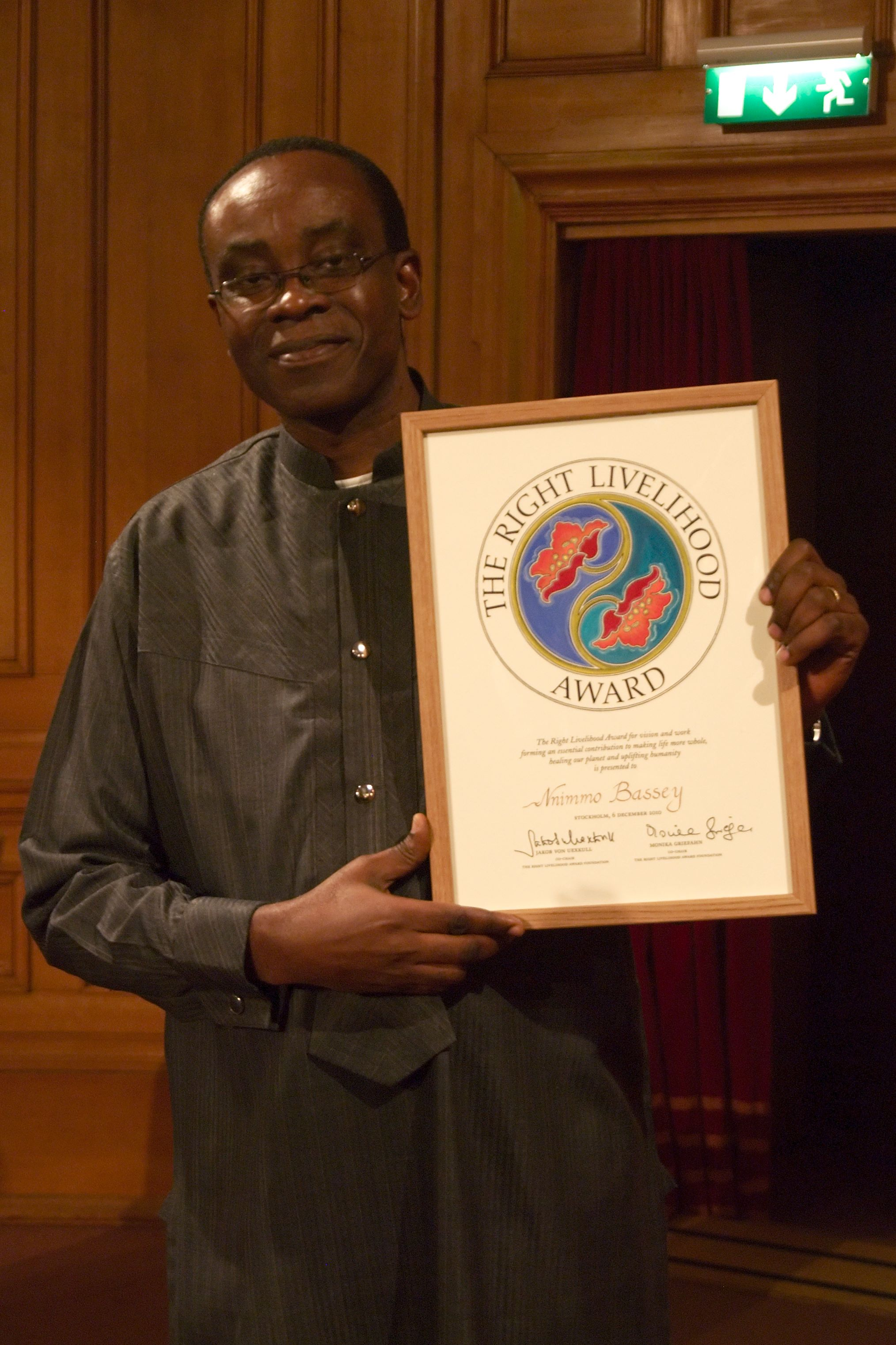 Award ceremony of the Right Livelihood Awards 2010